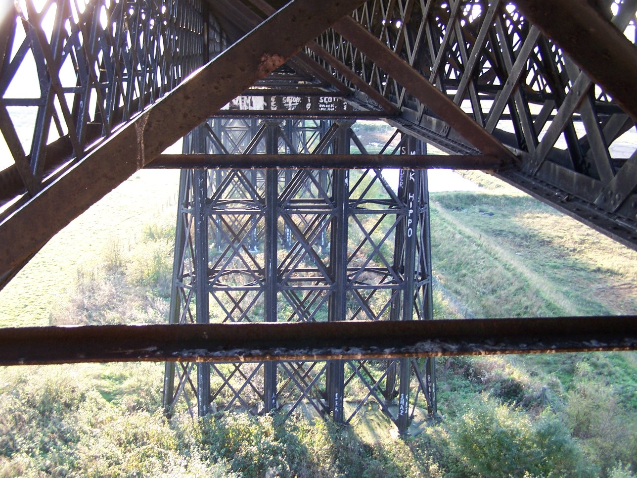 Author: Tina Cordon, Source: Own Picture, Tina Cordon (talk) 21:11, 24 February 2009 (UTC)